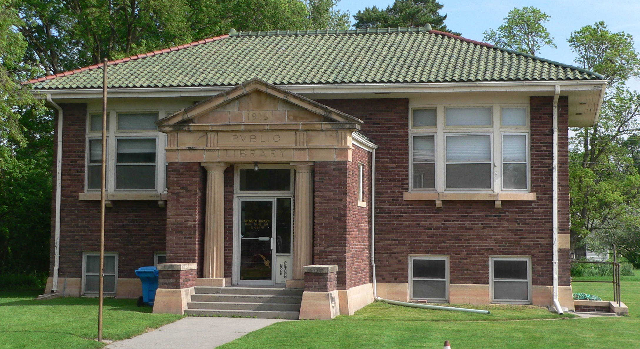 Brenizer Library in Merna, Nebraska; seen from the south. The building was designed in Prairie School style and built in 1916. It is listed in the National Register of Historic Places. It continues to serve as Merna's library.